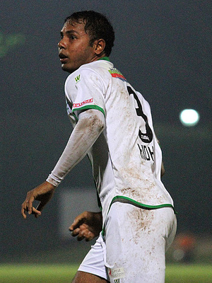 Singaporean footballer Hidhir Hasbiallah playing for Woodlands Wellington in a Prime League match against Geylang International on 3 March 2013.